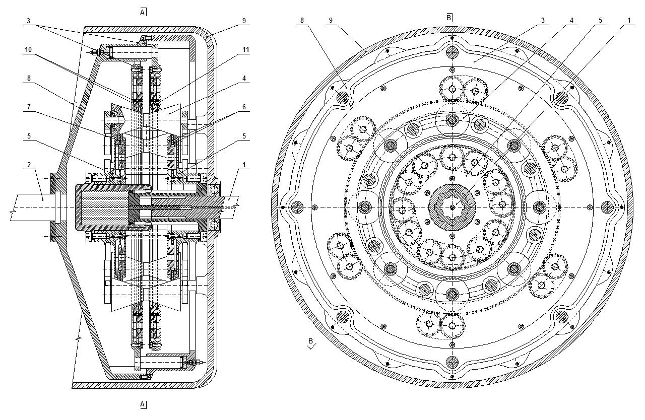 This CVT has rigid friction members organized as a planetary wheelwork. Its satellites are shaped as smooth truncated cones engaged with a narrow smooth sun gear and with a narrow smooth ring gear. At transmission ratio changing the sun gear and the ring gear are shifted in a mutually opposite direction which is possible thanks to radial mobility of cones. In order to neutralize the axial forces on bearings this CVT is implemented as a double one. Its rigid friction members have a planetary gearset configuration whose non-toothed satellites 4 are shaped as double truncated cones. The shafts of those doublecones 4 are mounted into the box 9 by means of swinging arms. From the outside the doublecones 4 are in contact with a pair of symmetrically located, axially shifting rings 3 connected by means of a drum 8 with the output shaft 2. Analogously, from within the doublecones 4 are in contact with a pair of pulleys 5 mutually against each other movable on the input shaft 1. Both pulleys 5 consist of three disks. The central disk 7 is fixed to the pulley hub. The lateral disks 6 are mutually connected by a toothed differential squaring the different transmission ratios of disks 6. The rings 3 are solved similarly. The control system regulates the pressure between the friction members by the transmitted torque and neutralizes the centrifugal force effect on the pressure in the peripheral cylinders. In order to provide for a parallel shifting rings 3 also at unequal passive resistances, the cylinders are distributively filled by parallel piston pumps. Also the transmission change by pulleys mutually moving in opposite direction and by analogously moving rings is controlled hydraulically.